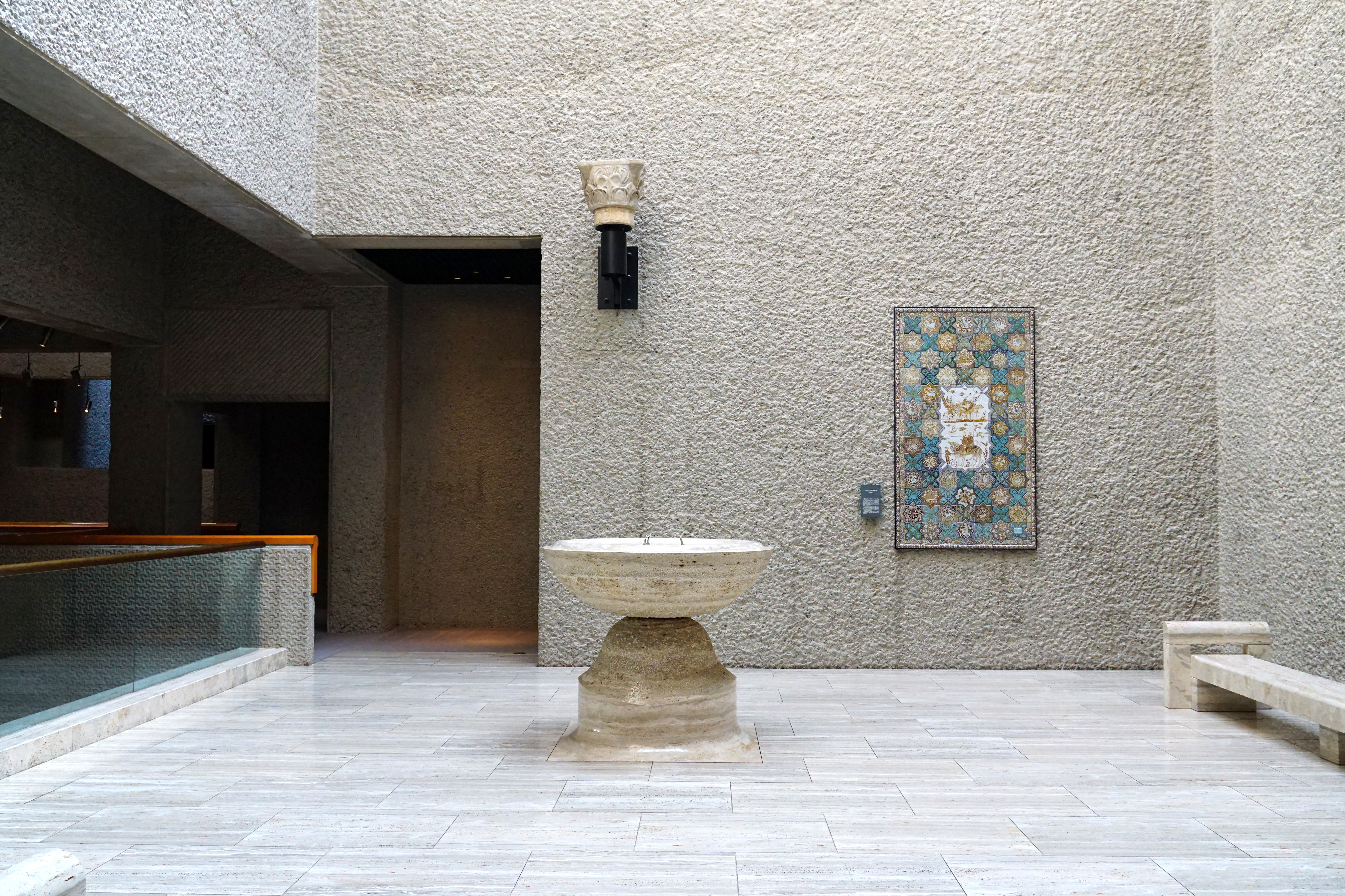 The Okayama_Orient_Museum in Okayama, Okayama prefecture, Japan